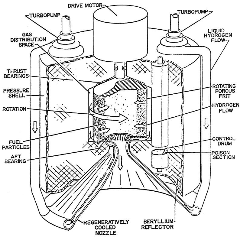 Rotating Bed Reactor is a Particle Bed Reactor were the particles are packed on the wall by centrifugation, it does not requires inner hot frit and can achieve higher output temperature.